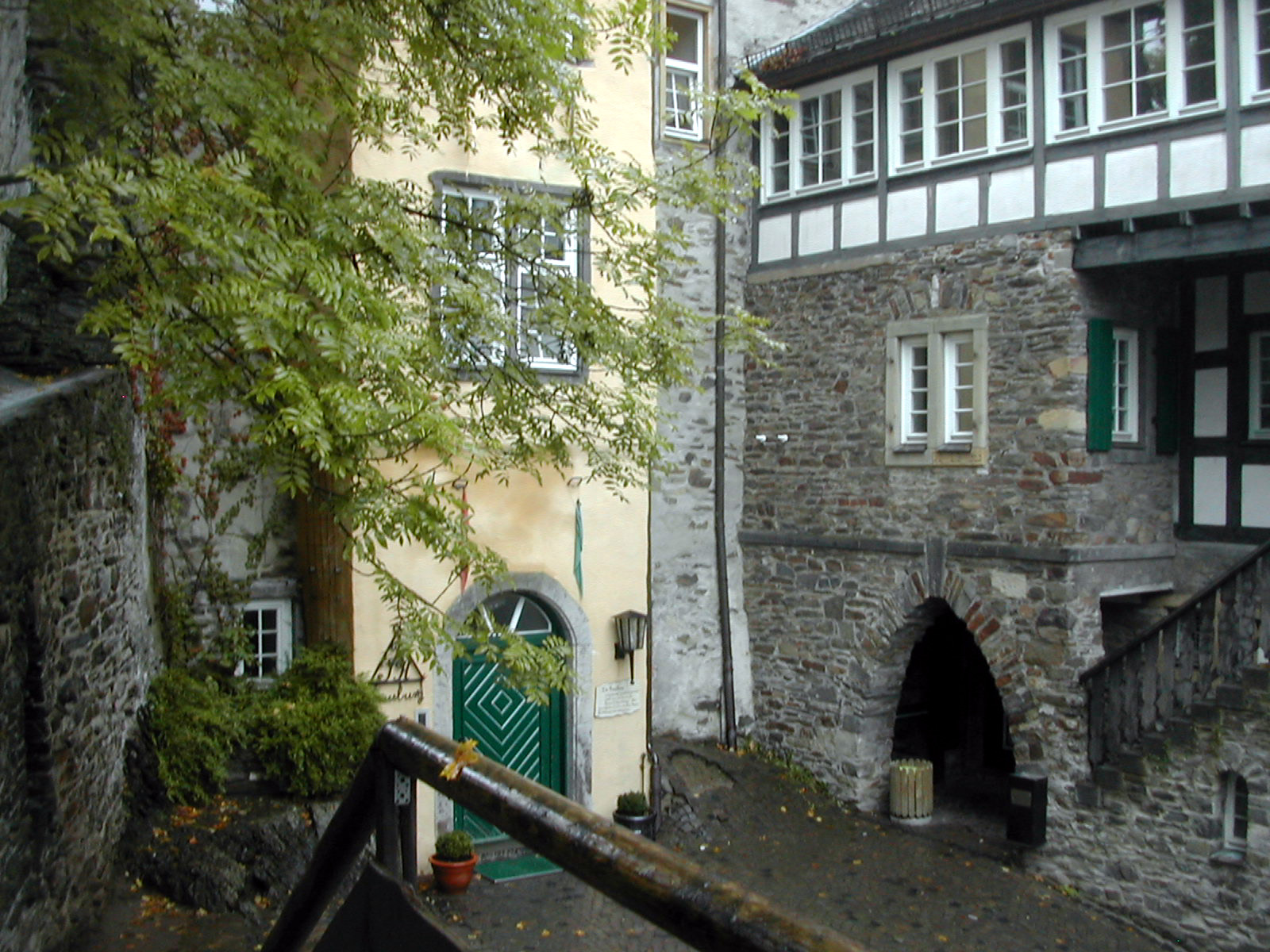 Photograph by Gary McGath, October, 2005. Freusburg Castle and youth hostel, Germany. Uploaded by the photographer.